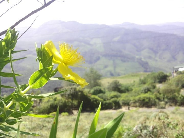 This was taken on a bright morning in the famous Rajamala hill, Munnar. We were on a trip and i stayed at the top admiring the view...